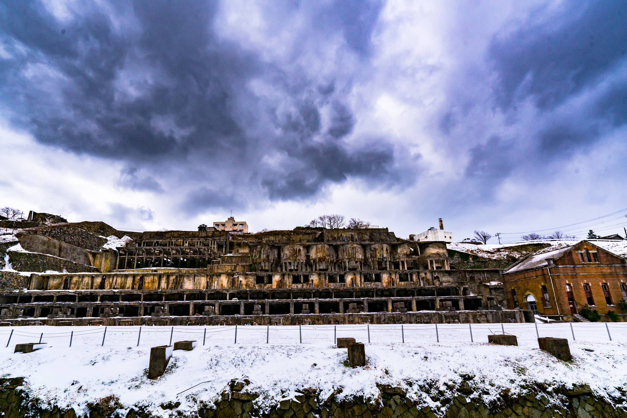 500px provided description: Industrial heritage [#snow ,#ruins ,#heritage ,#sado ,#sadoisland]